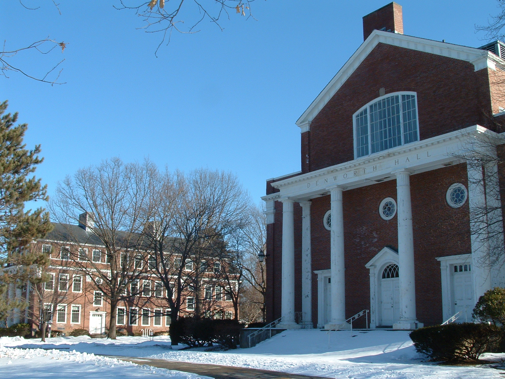 Denworth Hall, Northpoint Bible College, Haverhill, Massachusetts